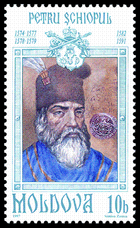 Stamp of Moldova